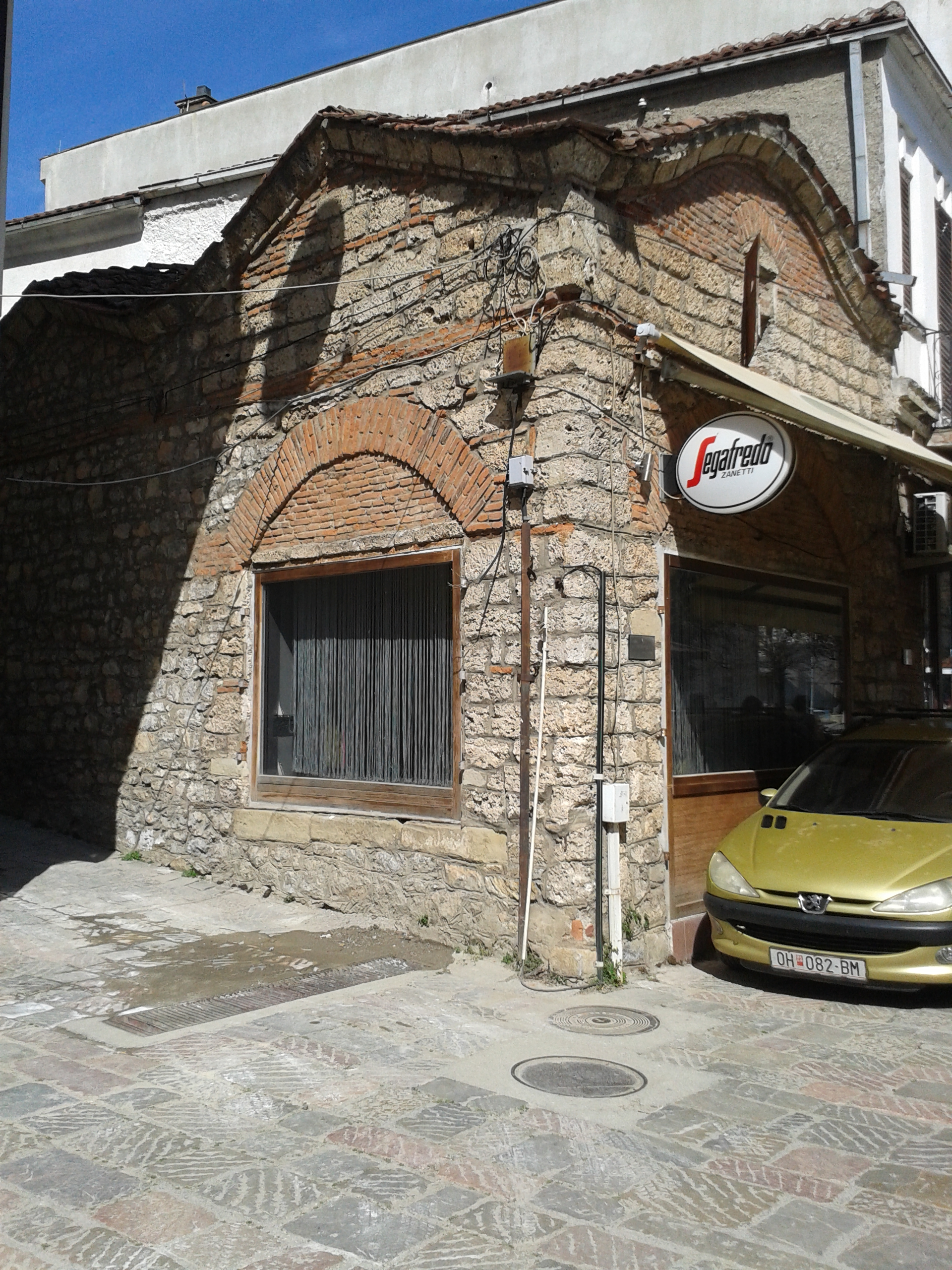 Magaza on 8-10 Tsar Samuil Street, Ohrid